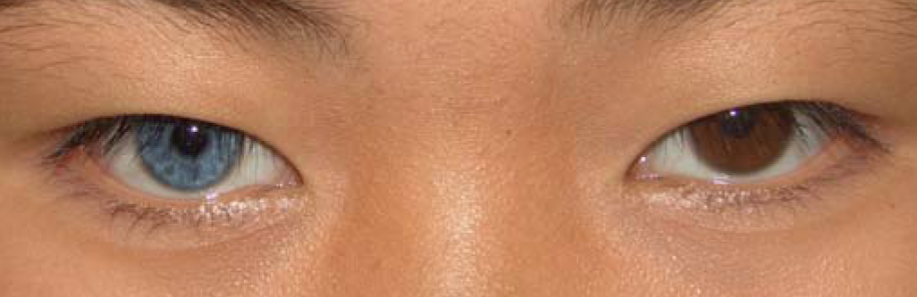 Selection from figure 2 of a Chinese patient with Waardenburg Syndrome type 2 showing "complete heterochromia iridis." "Upper left, the proband of family WS13 presented with complete heterochromia iridis. "